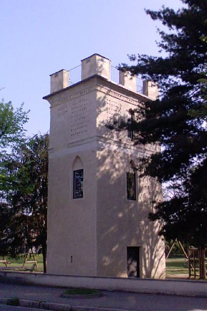 The "Schiapparelli Tower" in the park of Origgio